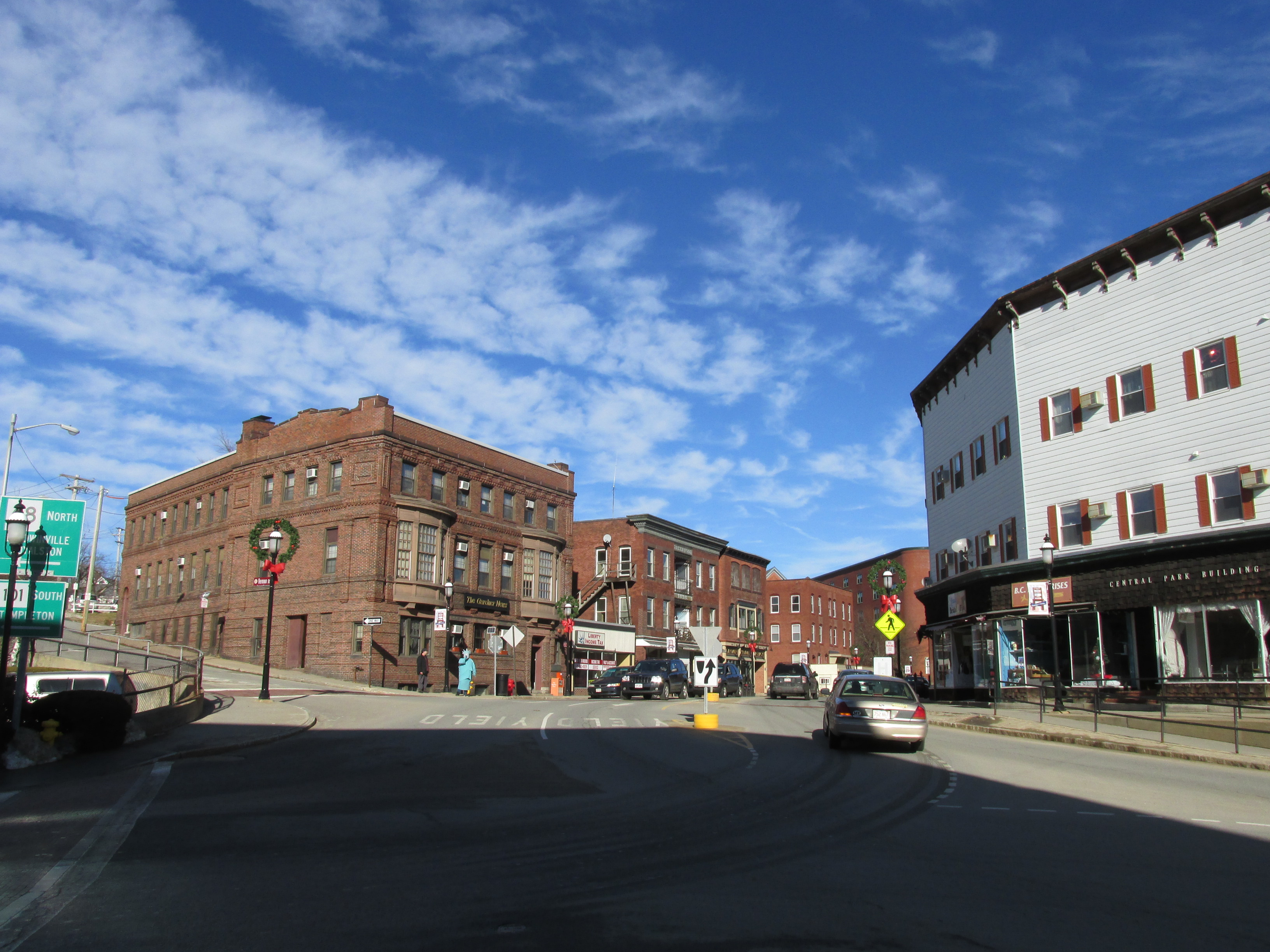 Central Street from Parker Street, Gardner Massachusetts